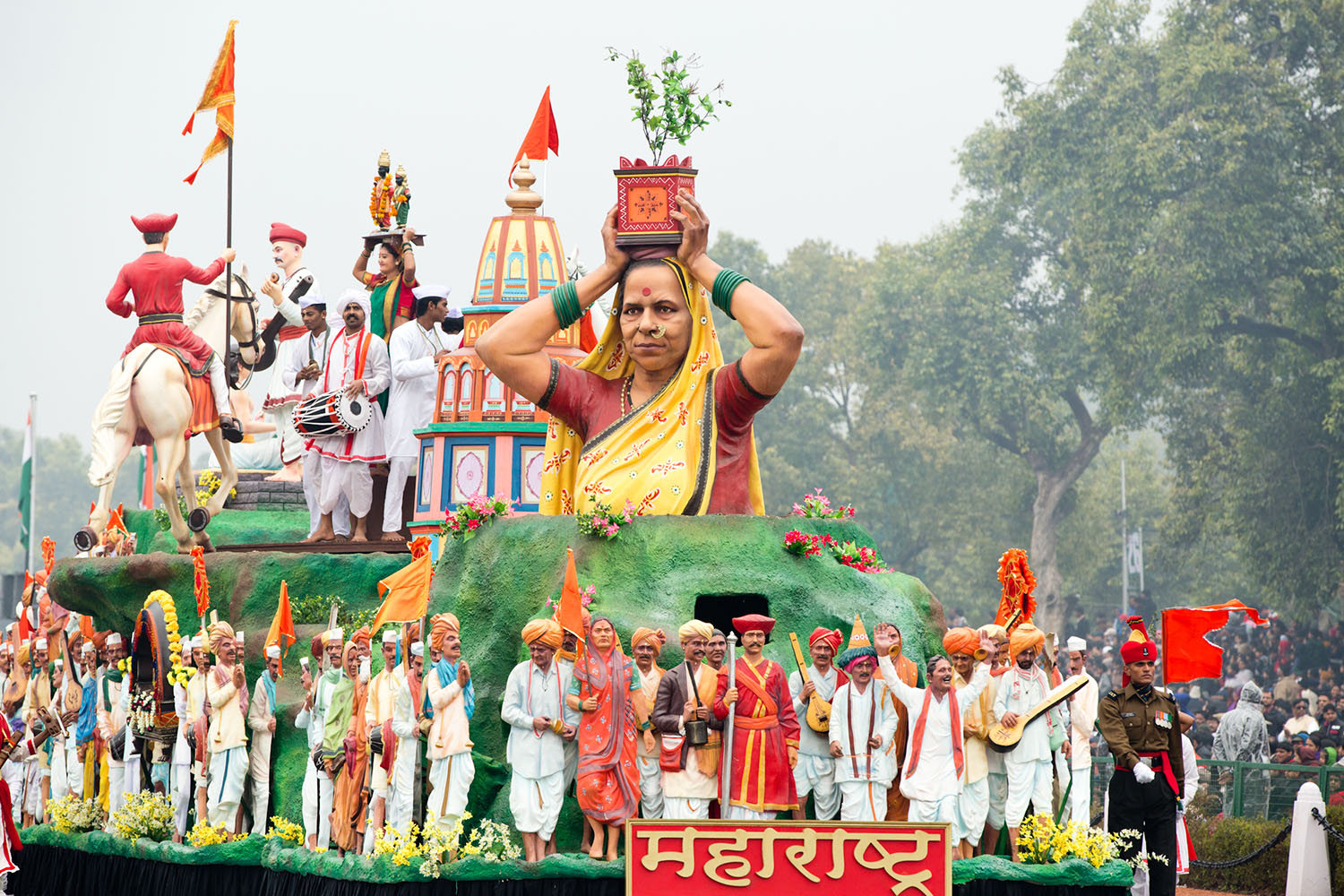 Float representing the state of Maharashtra at the 2015 Republic Day Parade.